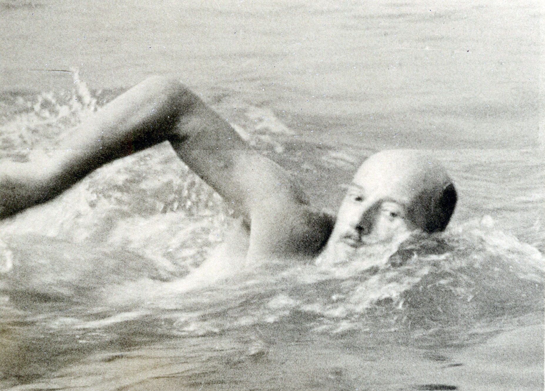 Tadeusz Semadeni (1902-1944, organizer of the Polish Swimming Federation) is swimming crawl